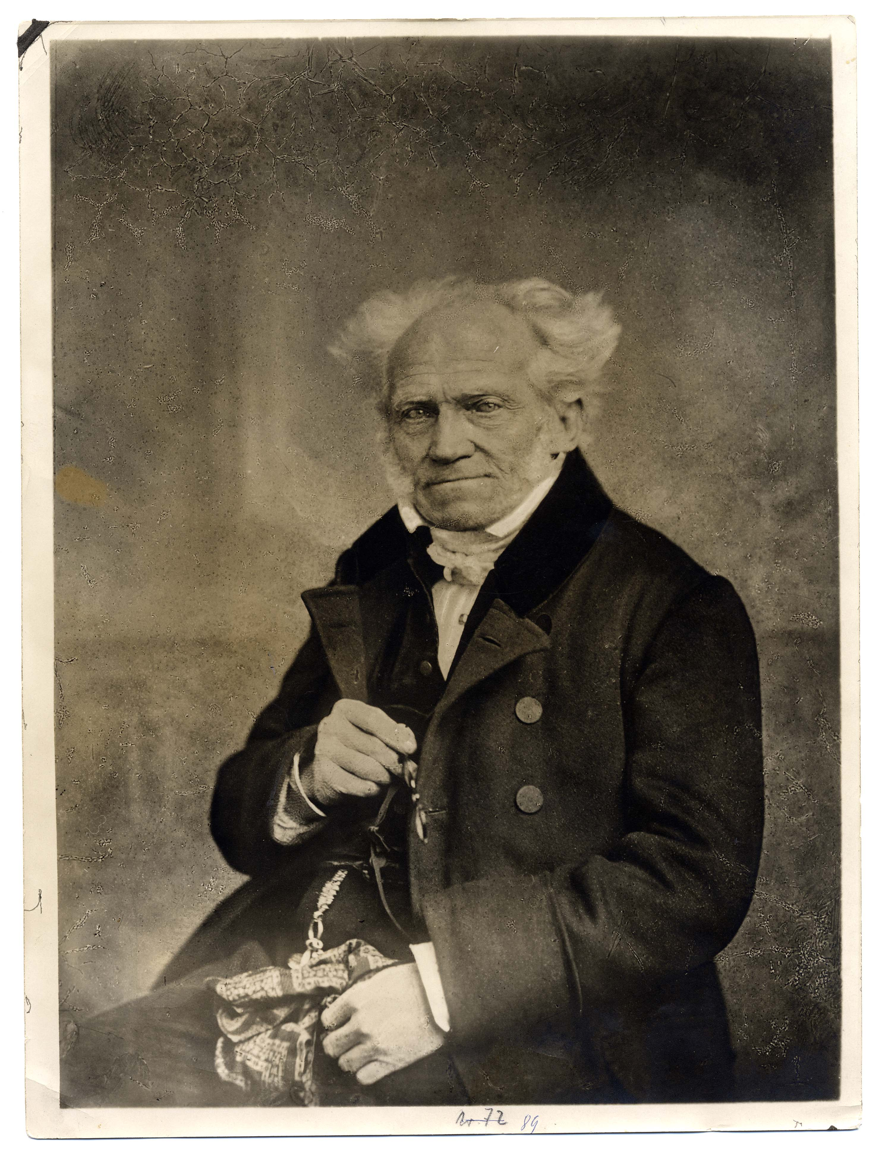 Portrait photograph of Arthur Schopenhauer